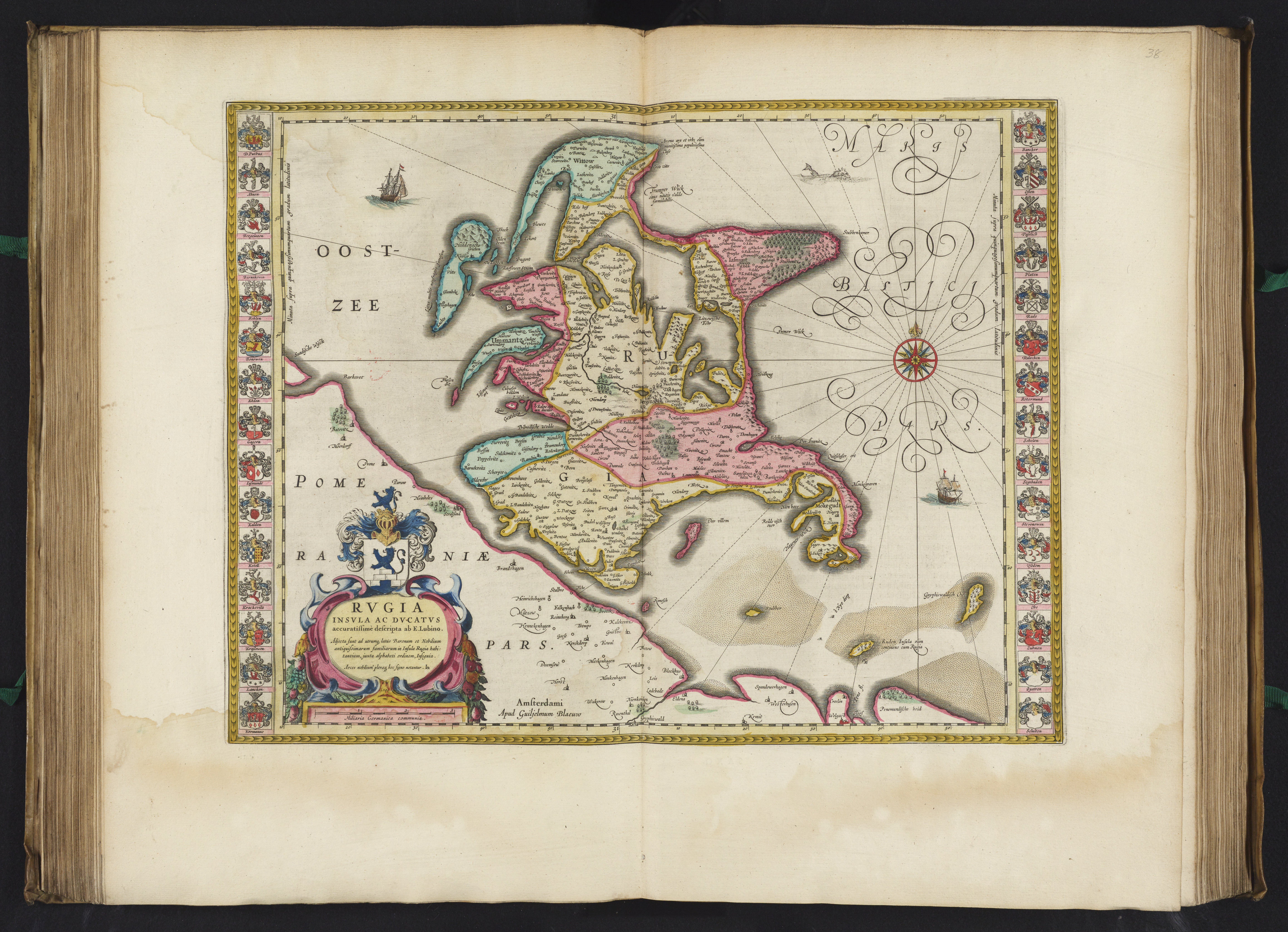 map of Rügen, southern Baltic Sea, largest island of Germany